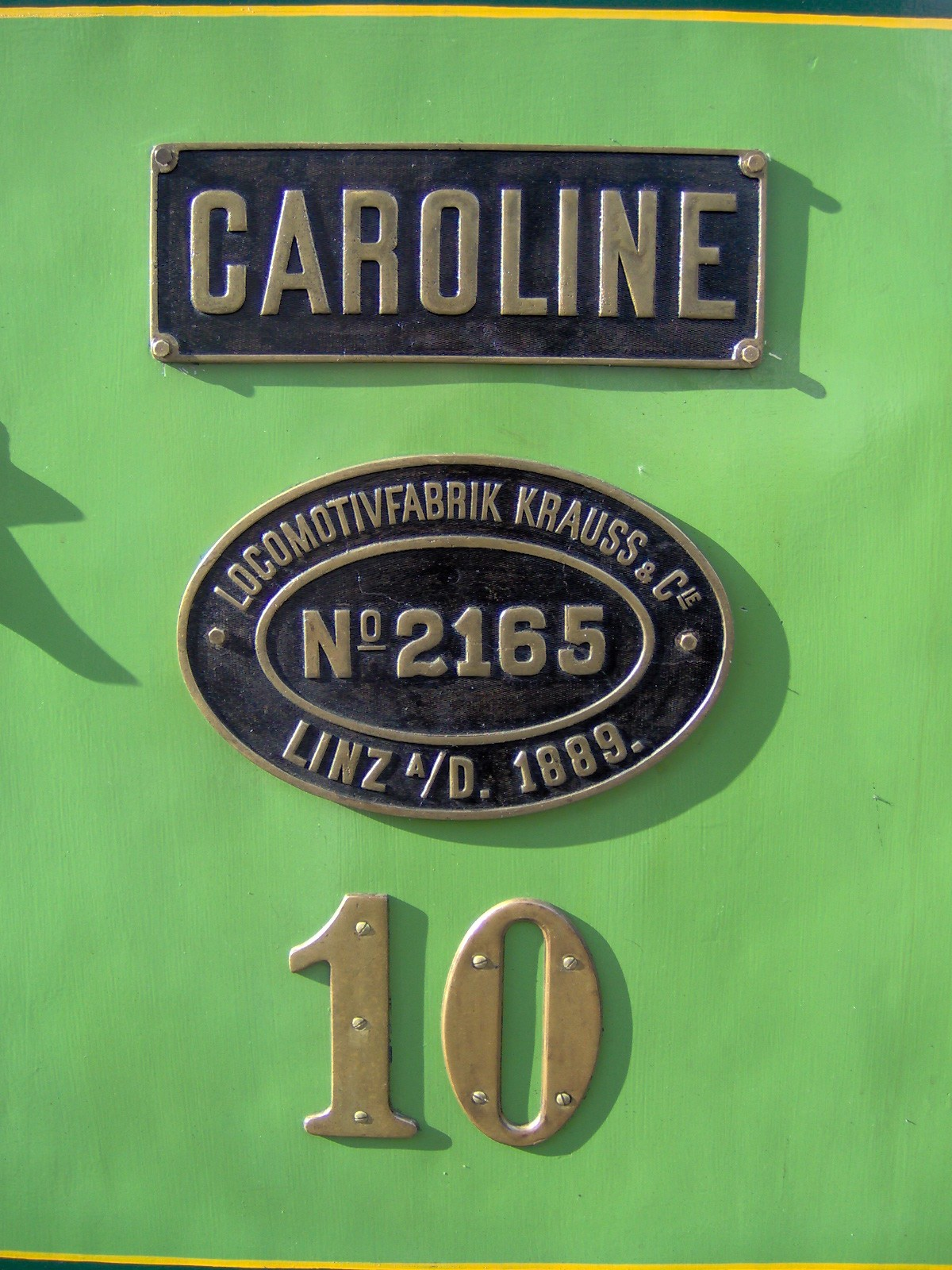 Steam tram locomotive No. 10 "Caroline" in Brno, Czech Republic